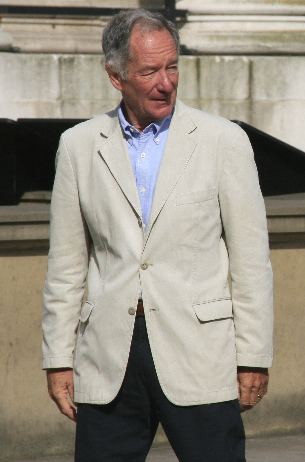 Michael Buerk during the filming of Britain's Secret Treasures at the British Museum, London, 23 June 2012.